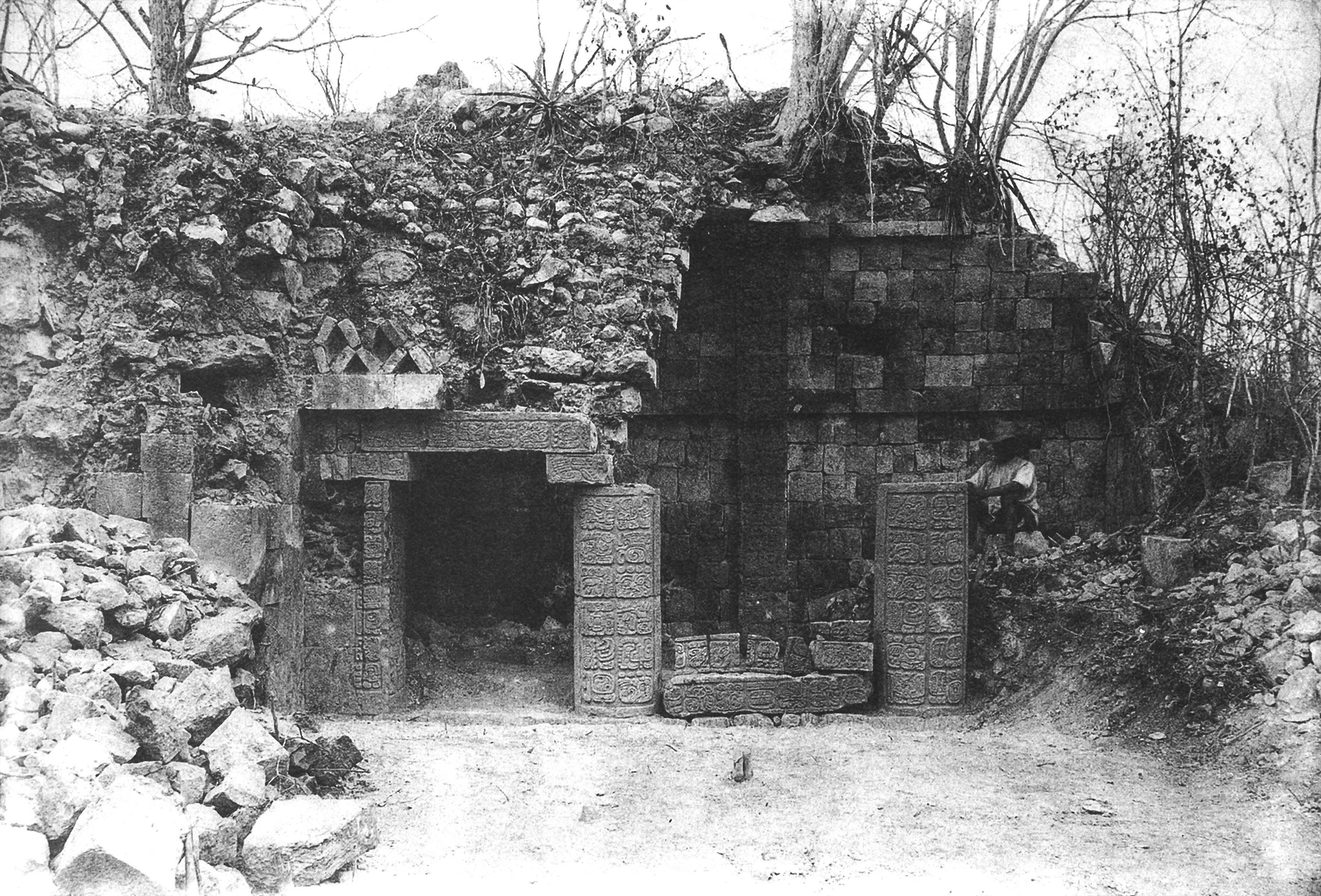 Xcalumkin, Campeche, Mexico: Group of the Initial Series, North Building